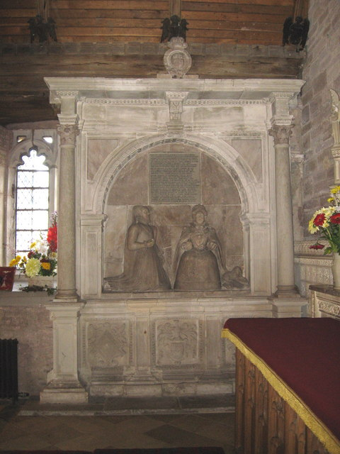 The tomb of Blanche Parry, Bacton church Blanche Parry was lady in waiting and confidante to Queen Elizabeth 1st for most of her life. Shown as the left figure on her tomb facing the Queen' she died in 1590